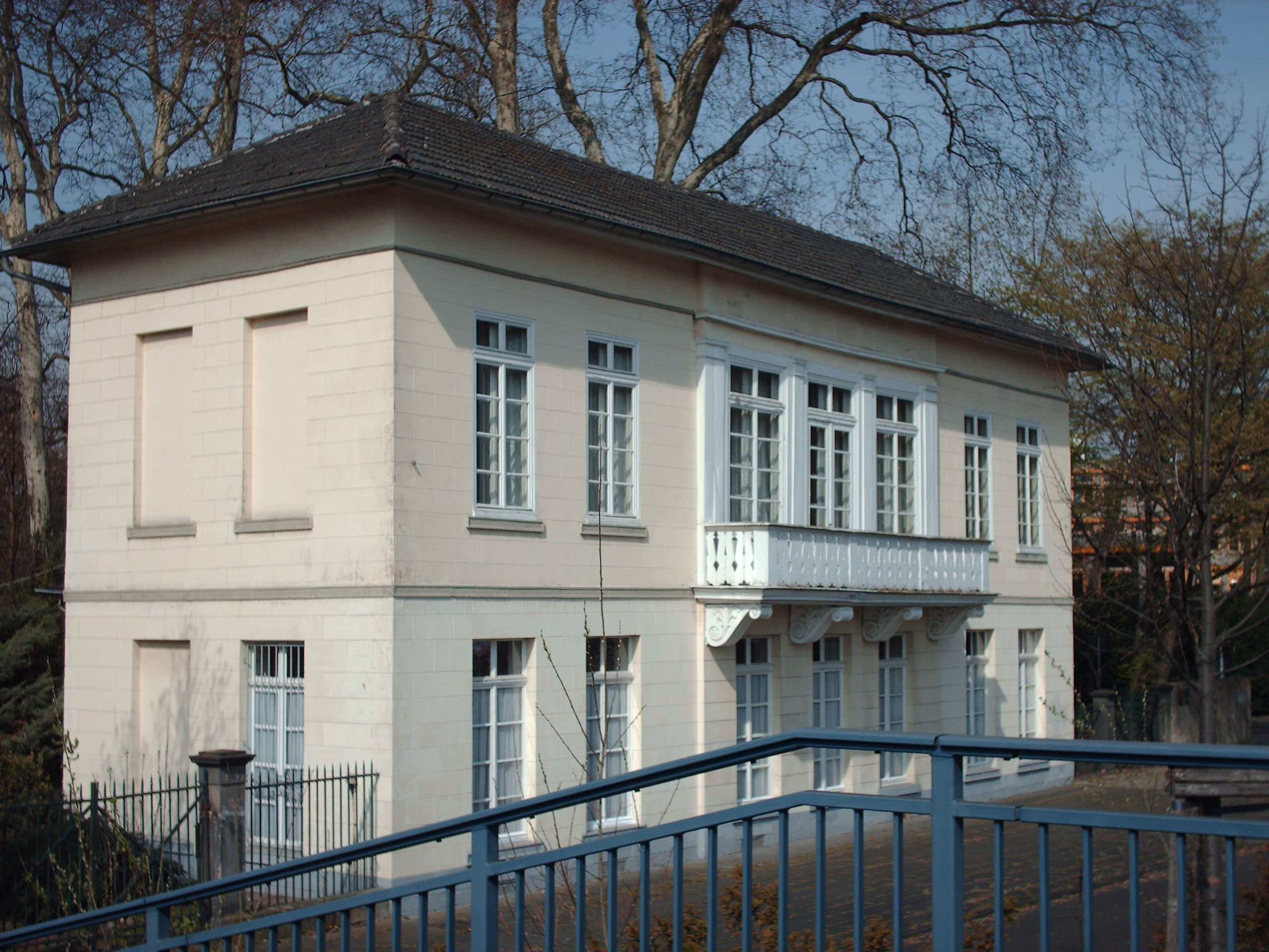 Haus Belvedere, Cologne, Germany check usage